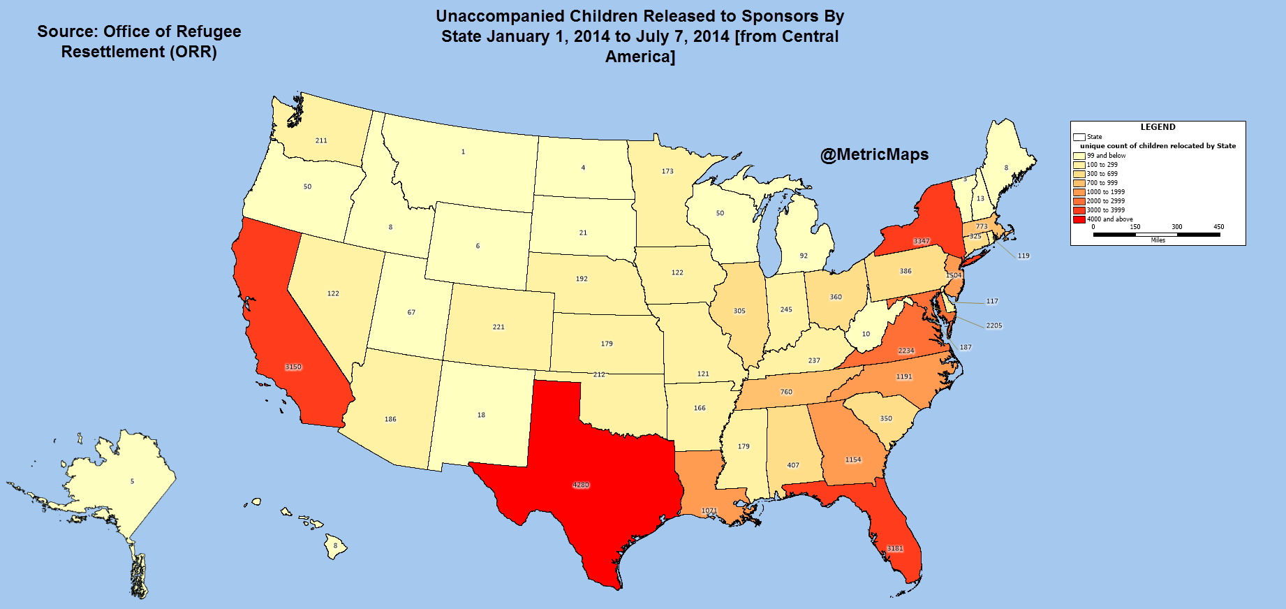 Unaccompanied Children Released to Sponsors by State, January 2014 - July 2014 from Central America